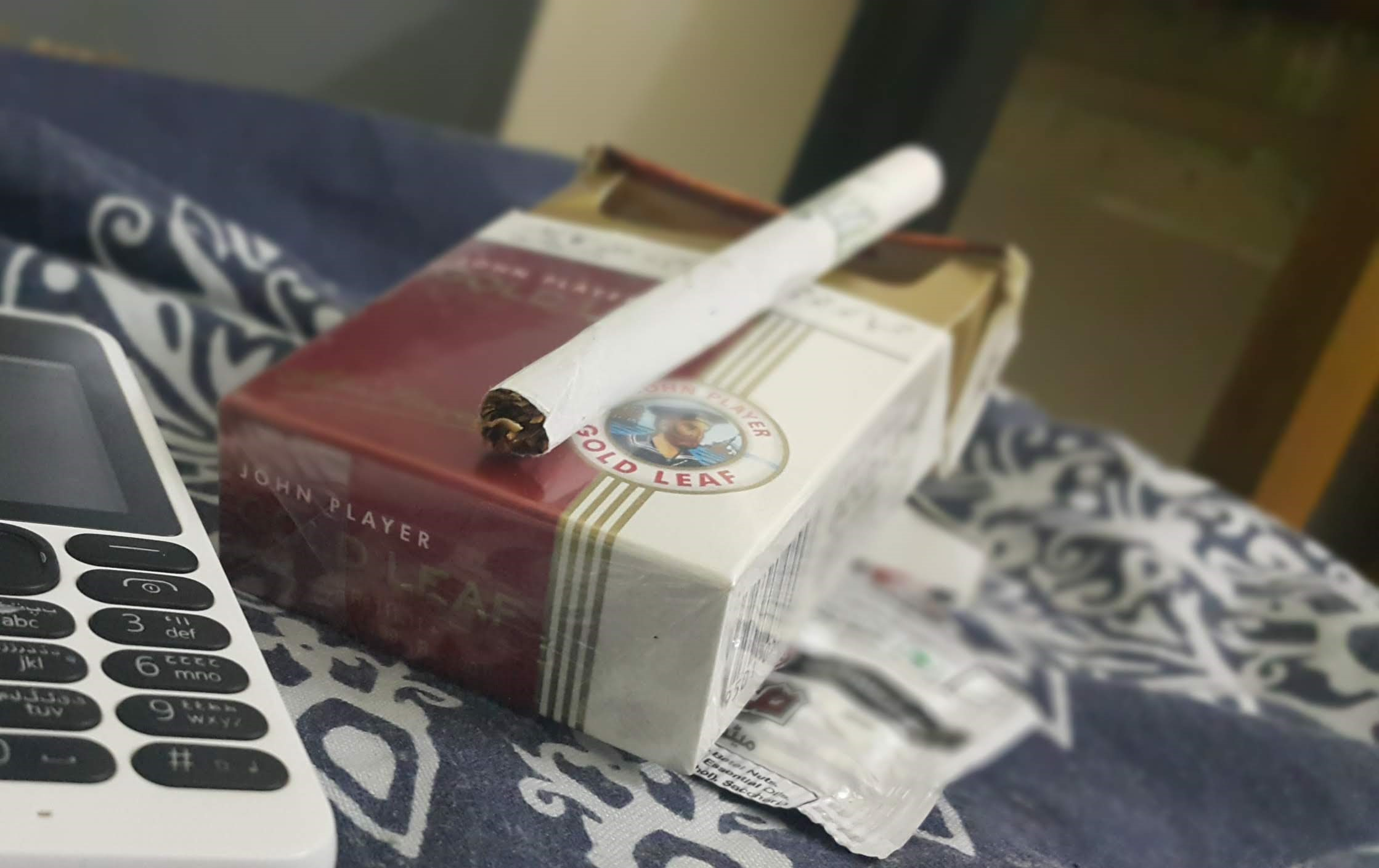 A full pack of Gold Leaf Cigarette brand of Pakistan